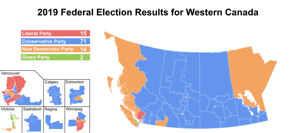 2019 Canadian Federal Election results by riding for Western Canada. Original map design by DrRandomFactor.